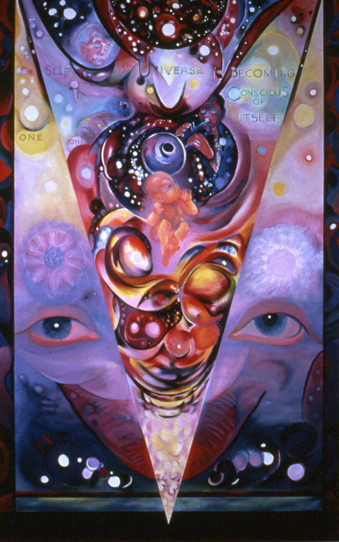 Being and Becoming 2, by Berta Rosenbaum Golahny, oil on canvas, 60" x 38"